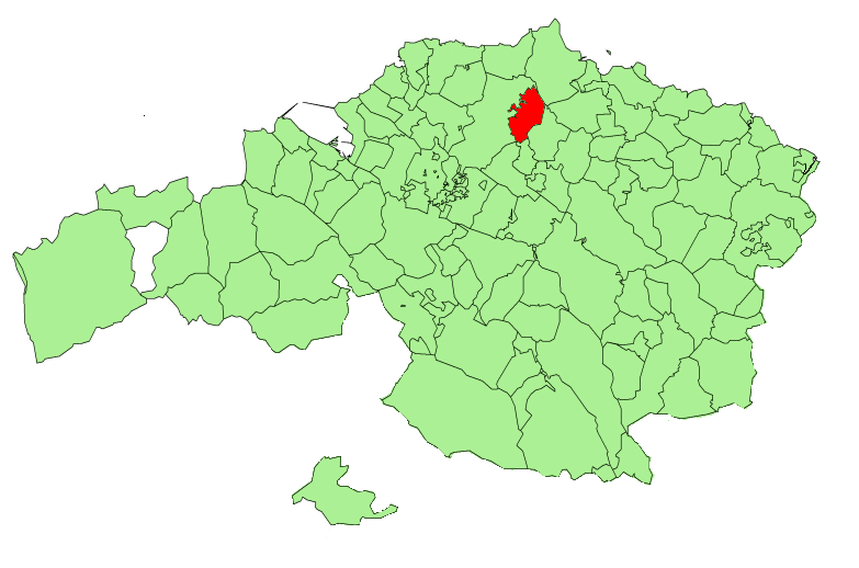 Meñaka municipality in the province of Biscay